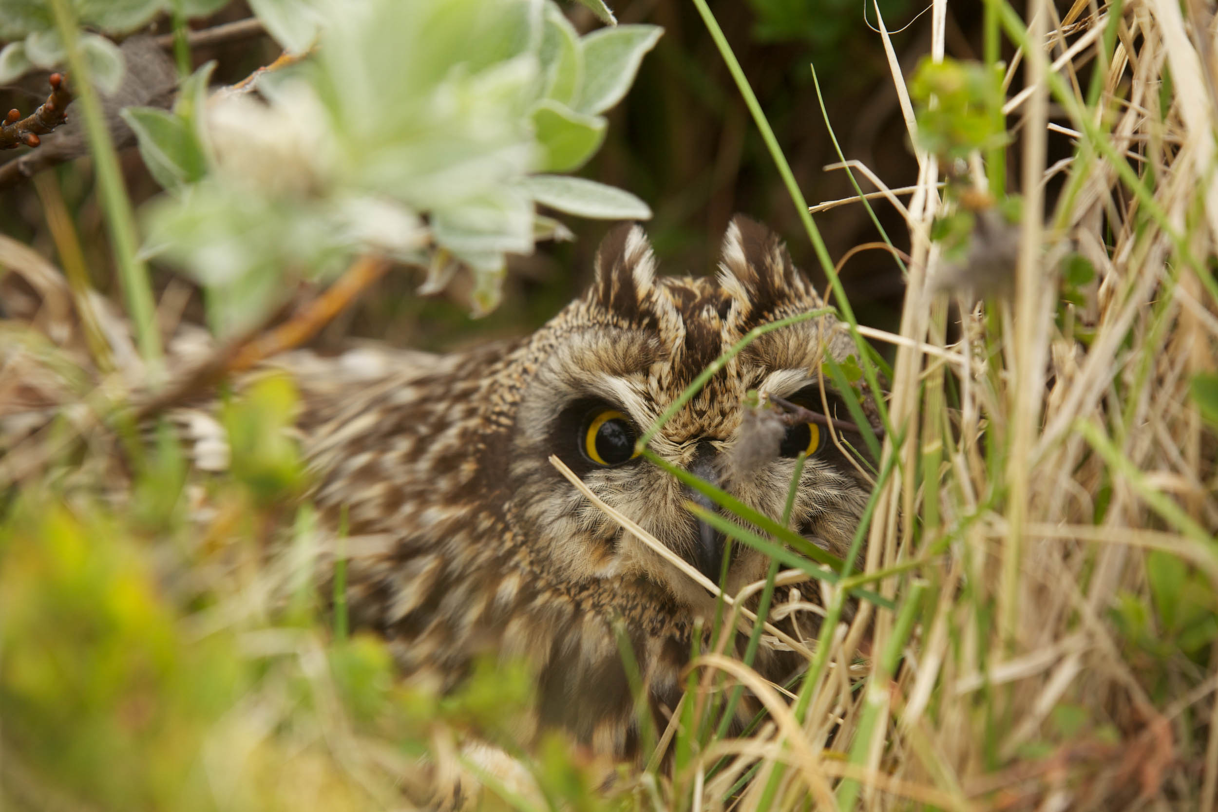 Brandugla Asio flammeus Short-eared Owl, on nest, Iceland.